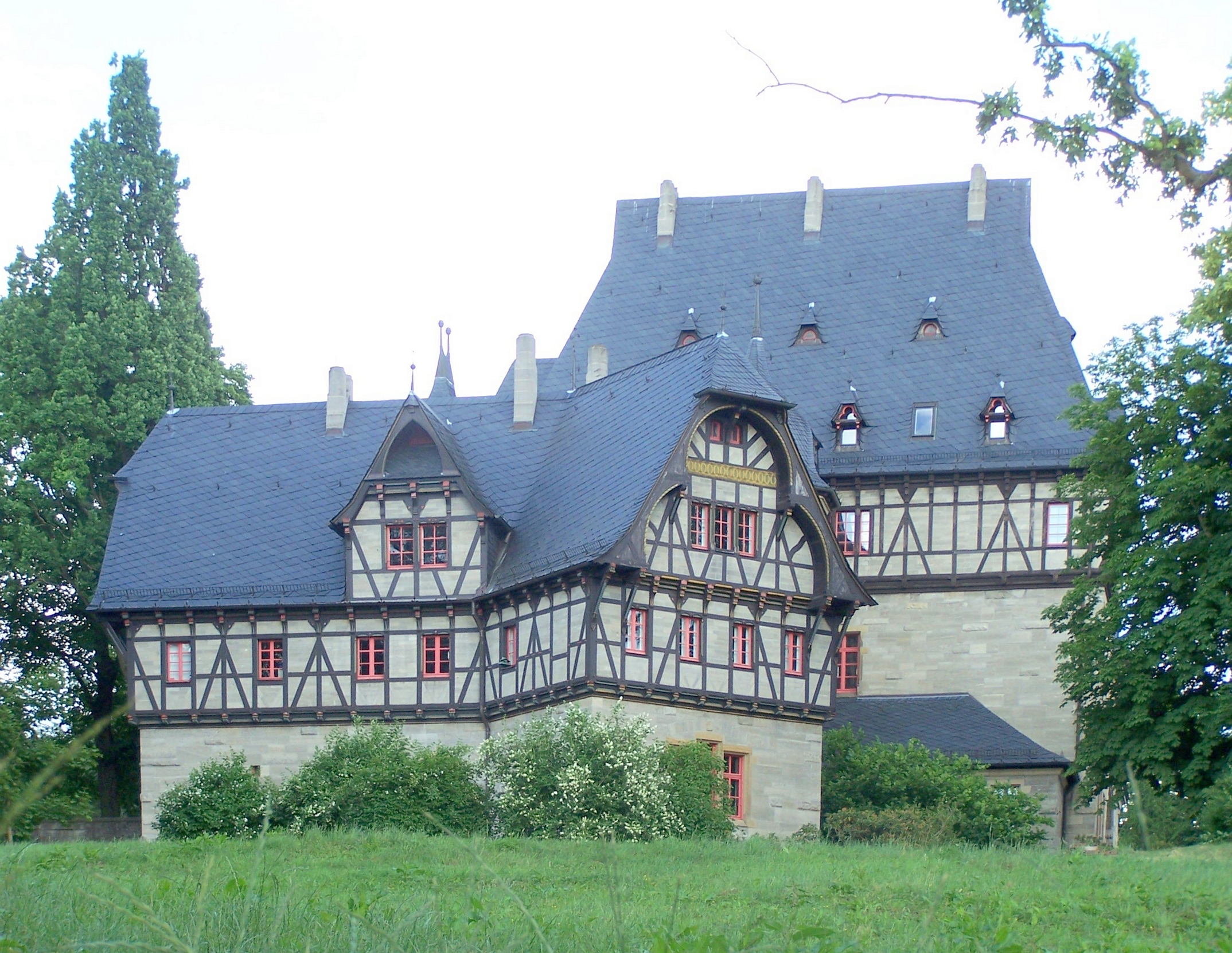 The seat of the Evangelical-Lutheran Church in Thuringia - Pflugensberg cottage.